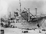 SS Mala 1948 (formerly flagged as USS Mayflower)